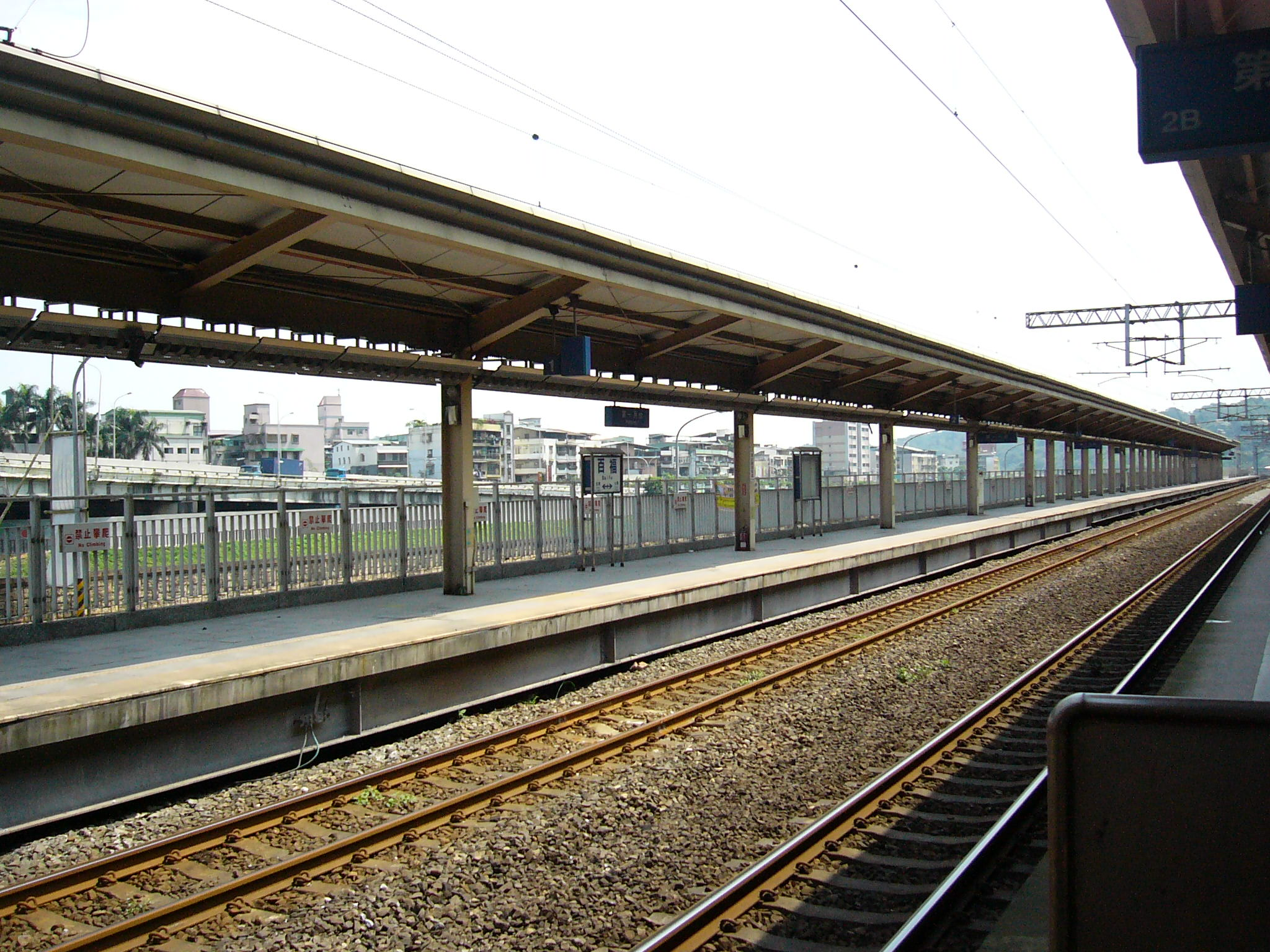 The Platform 1 of TRA Baifu Station is a side platform.中文（台灣）: 臺鐵百福車站第一月臺是一個側式月臺。